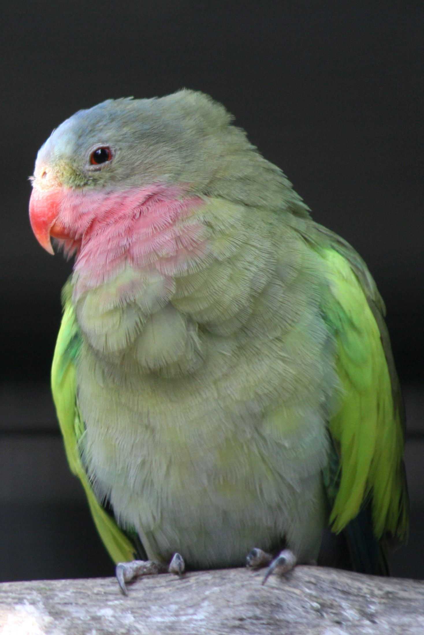 Princess, Alexandra's or Princess of Wales Parakeet (Polytelis alexandrae) at Assiniboine Park Zoo, Winnipeg, Canada.